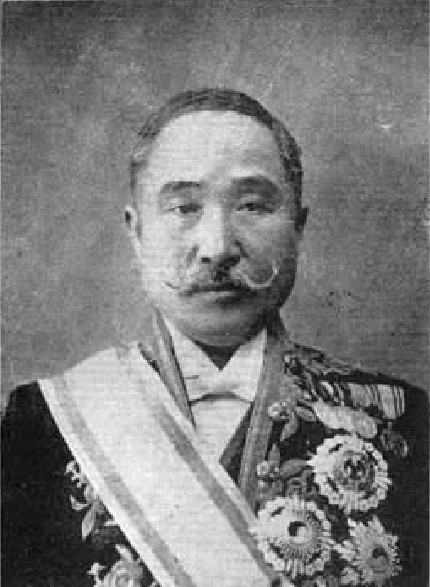 Min Byeong-seok Portrait